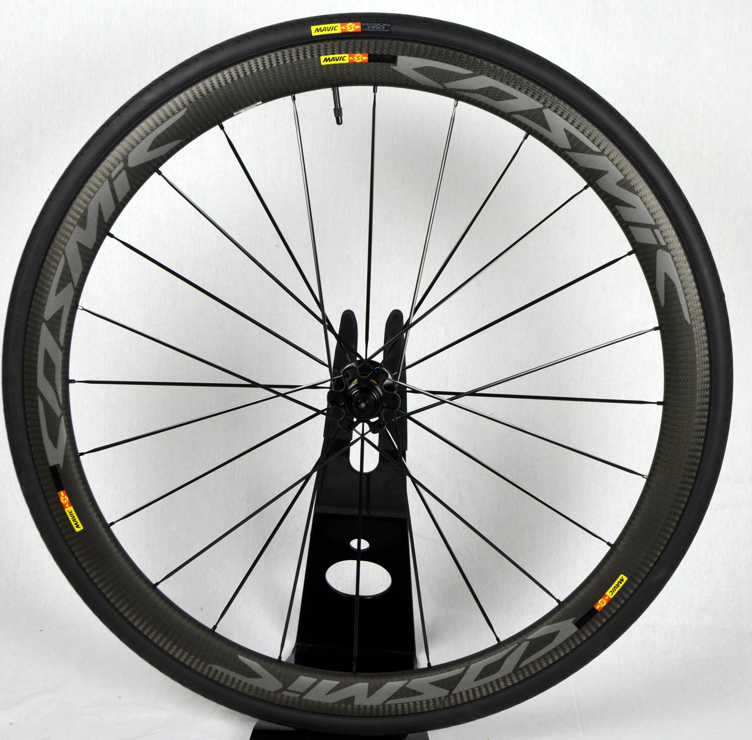 New for 2016 and available in April, this is a full-carbon clincher wheelset with a wide, 25mm profile, 40mm depth, and 450g rim weight. The complete wheelset weighs in at 1450g.